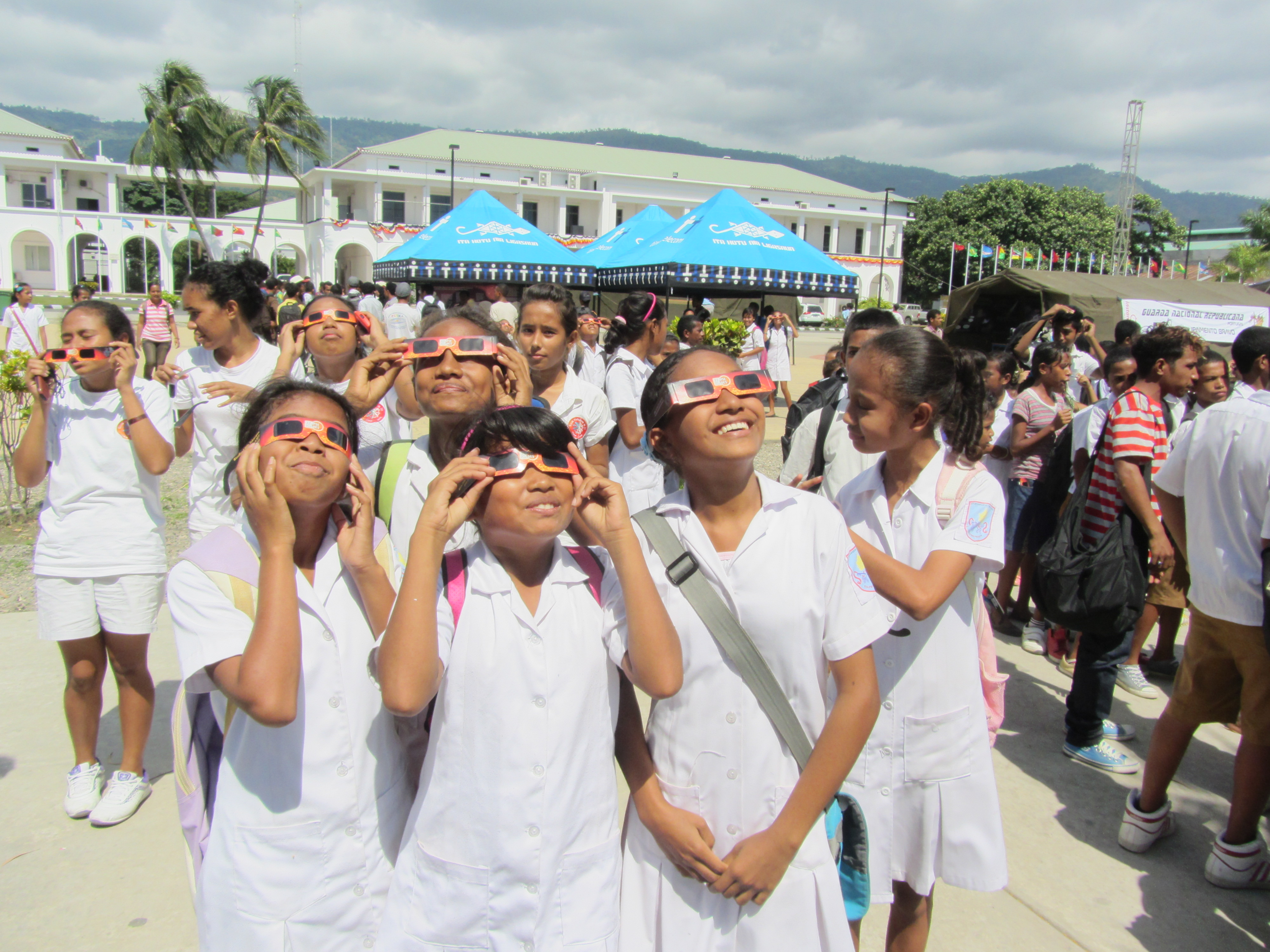 Transit of Venus observations On 6 June 2012, about 3800 people in Timor-Leste attended a public observing event: the final opportunity to see a transit of Venus in our lifetime. Together with the observations were an astronomy exhibition and explanation activities. Place: Palácio do Governo, Díli, Timor-Leste. Project: Astronomy in Timor-Leste:Celebrating the Transit of Venus 2012 More